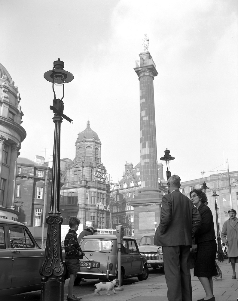 Looking towards Grey's Monument, Newcastle upon Tyne, November 1963 (TWAM ref. DT.TUR/2/32626B). You can see an aerial view of this area from 1963 in another of our sets . Tyne & Wear Archives presents a series of images taken by the Newcastle-based photographers Turners Ltd. The firm had an excellent reputation and was regularly commissioned by local businesses to take photographs of their products and their premises. Turners also sometimes took aerial and street views on their own account and many of those images have survived, giving us a fascinating glimpse of life in the North East of England in the second half of the Twentieth Century. (Copyright) We're happy for you to share these digital images within the spirit of The Commons. Please cite 'Tyne & Wear Archives & Museums' when reusing. Certain restrictions on high quality reproductions and commercial use of the original physical version apply though; if you're unsure please